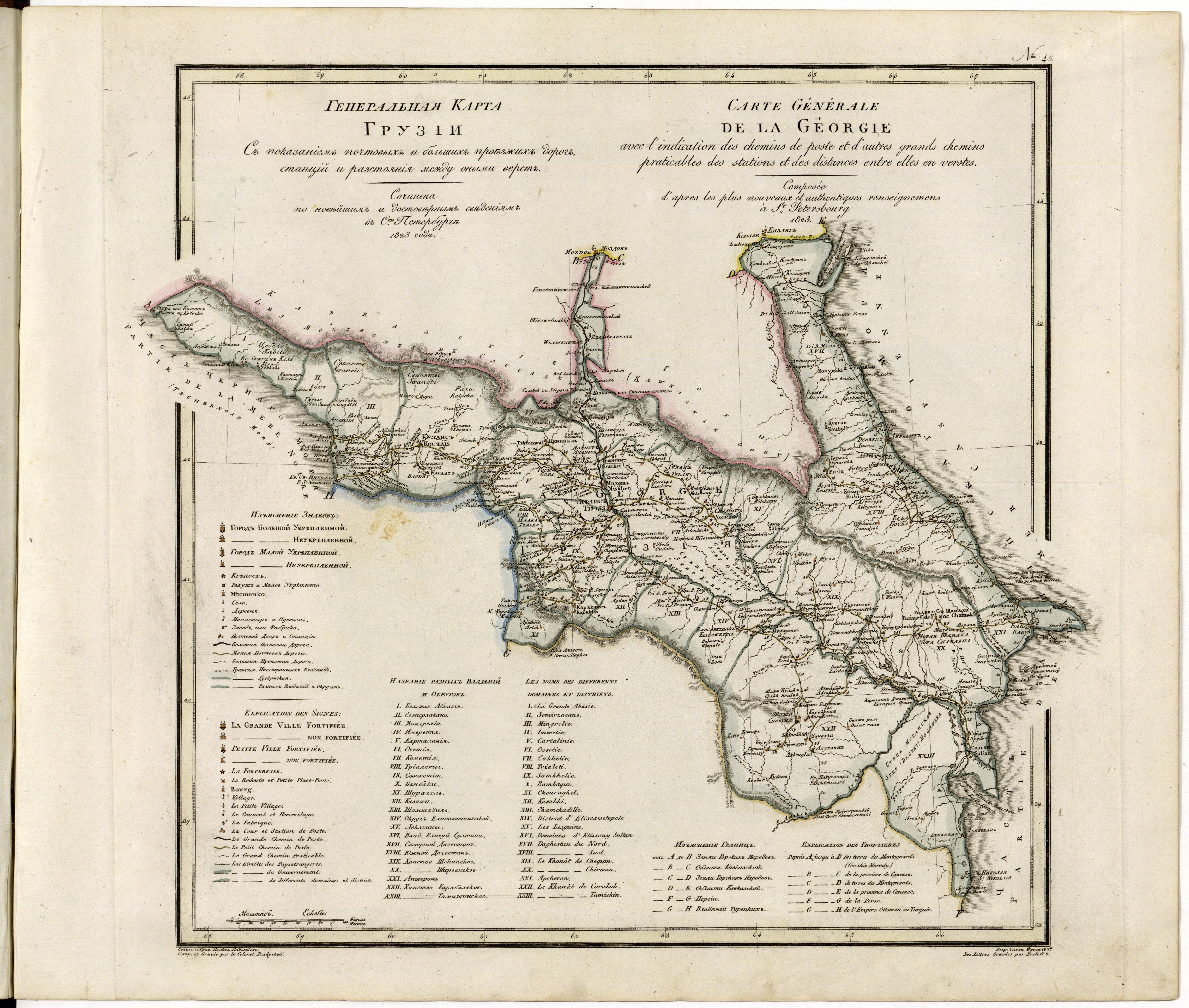 Geographic atlas of the Russian Empire, Kingdom of Poland and Grand Duchy of Finland divided into governorates, in Russian and French. 1823.